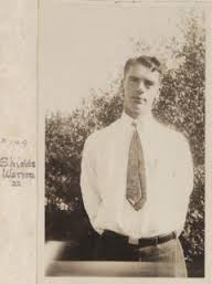 Warren is standing in front of some bushes, facing the camera. His head is tilted towards his left, and his two arms are folded behind him. He is wearing a white dress shirt and a short tie. Inscriptions on image and/or album page: "#149/Shields/Warren/22"